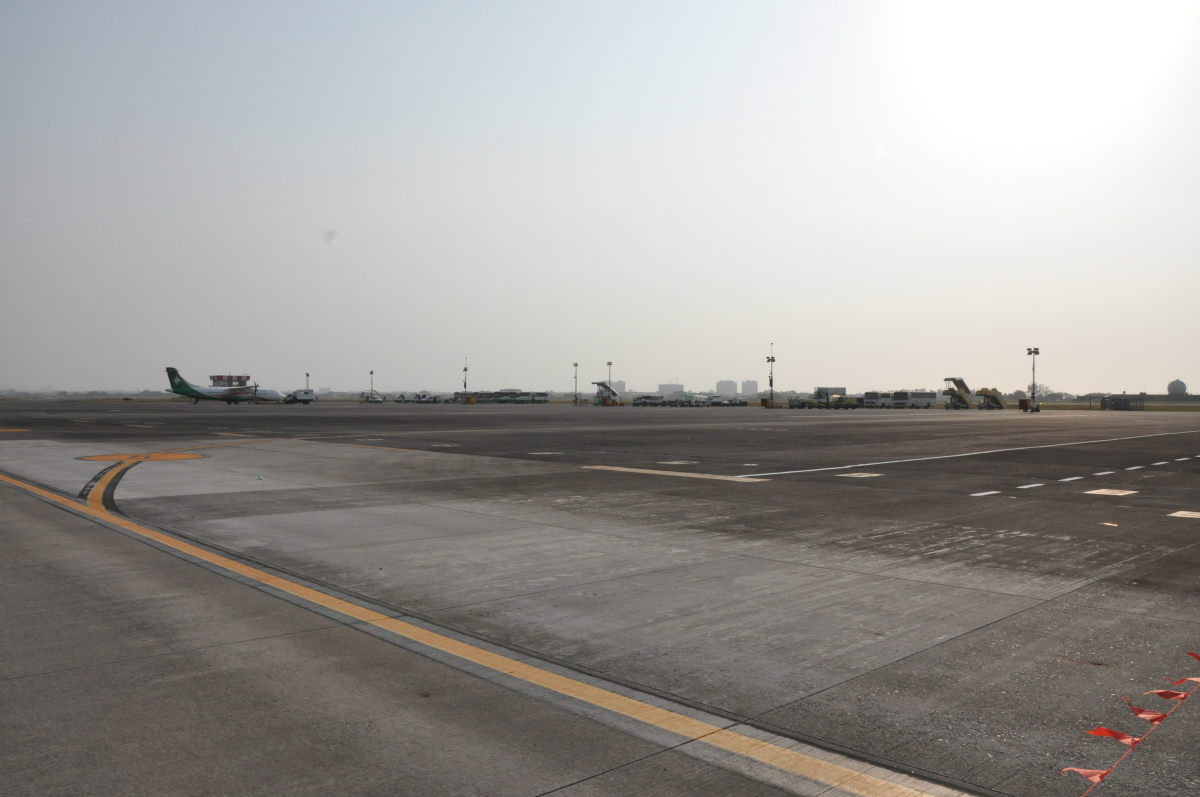 Tainan Airport (RCNN) Civil Aviation Area, 2019